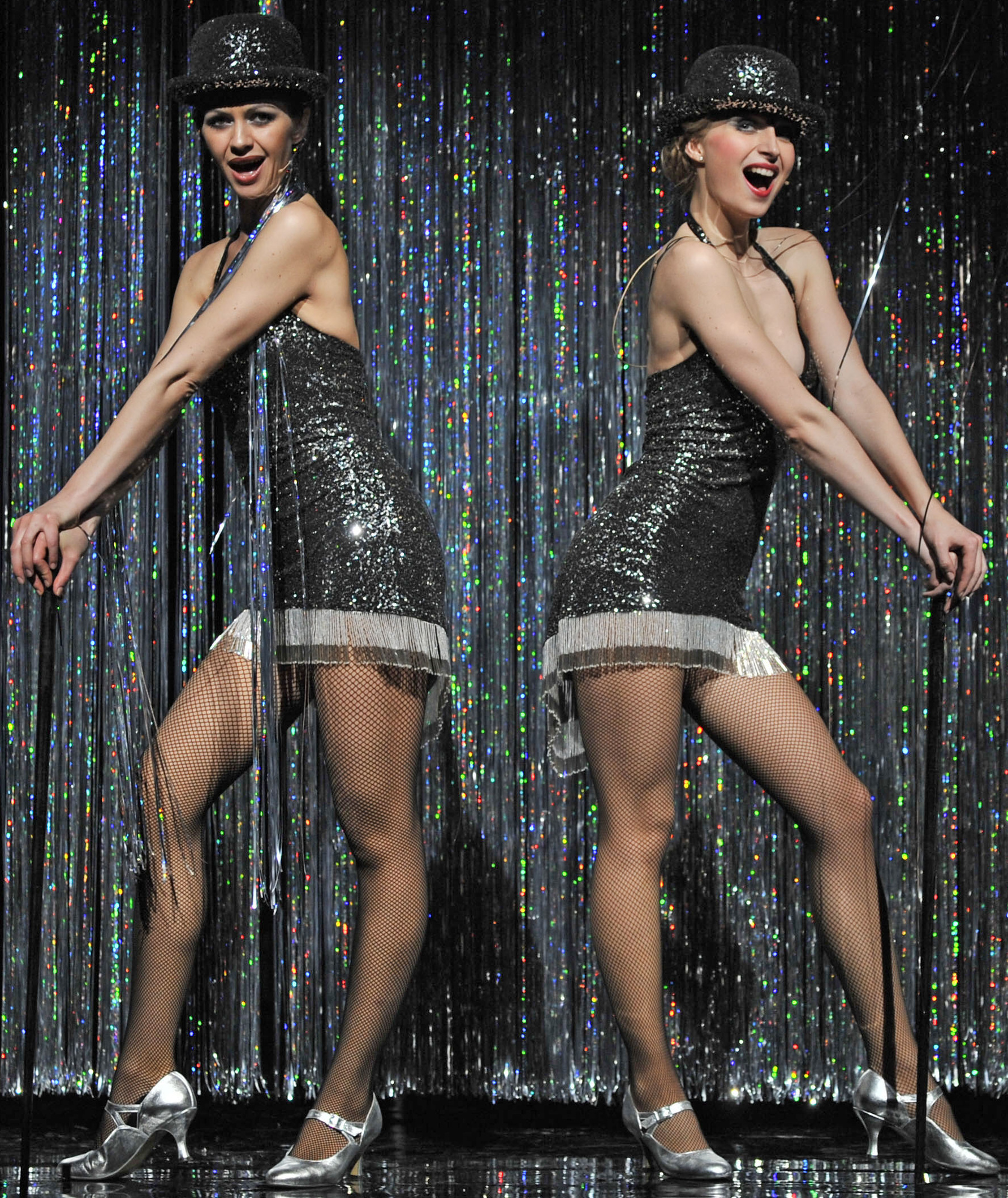 Musical Chicago by Městské divadlo Brno (from left Ivana Vaňková, Ivana Odehnalová)